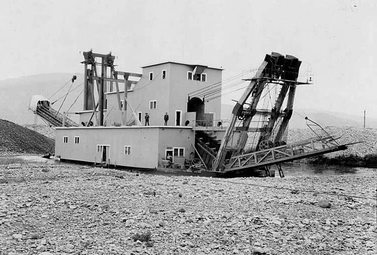 Bear Creek gold mining dredge, probably belonging to the Canadian Klondike Mining Company, Klondike River Valley, July 22, 1913